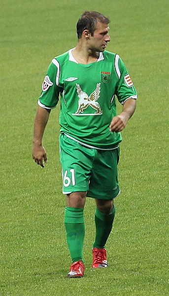 Gökdeniz Karadeniz